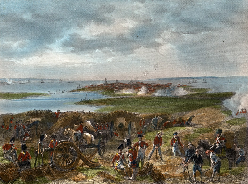 A depiction of the Siege of Charleston (1780) by Alonzo Chappel.